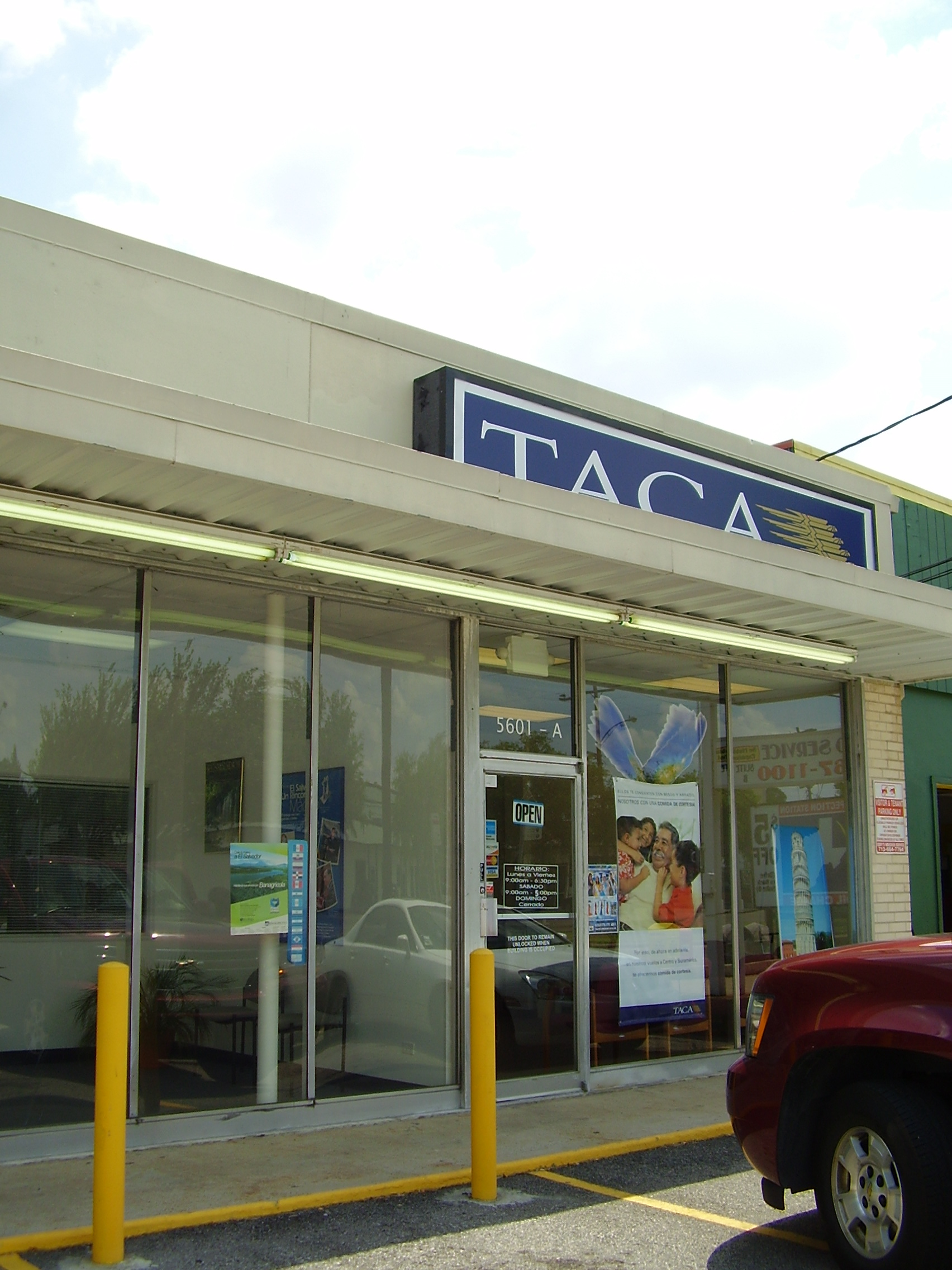 Grupo TACA Office along Bellaire Boulevard in Gulfton, Houston